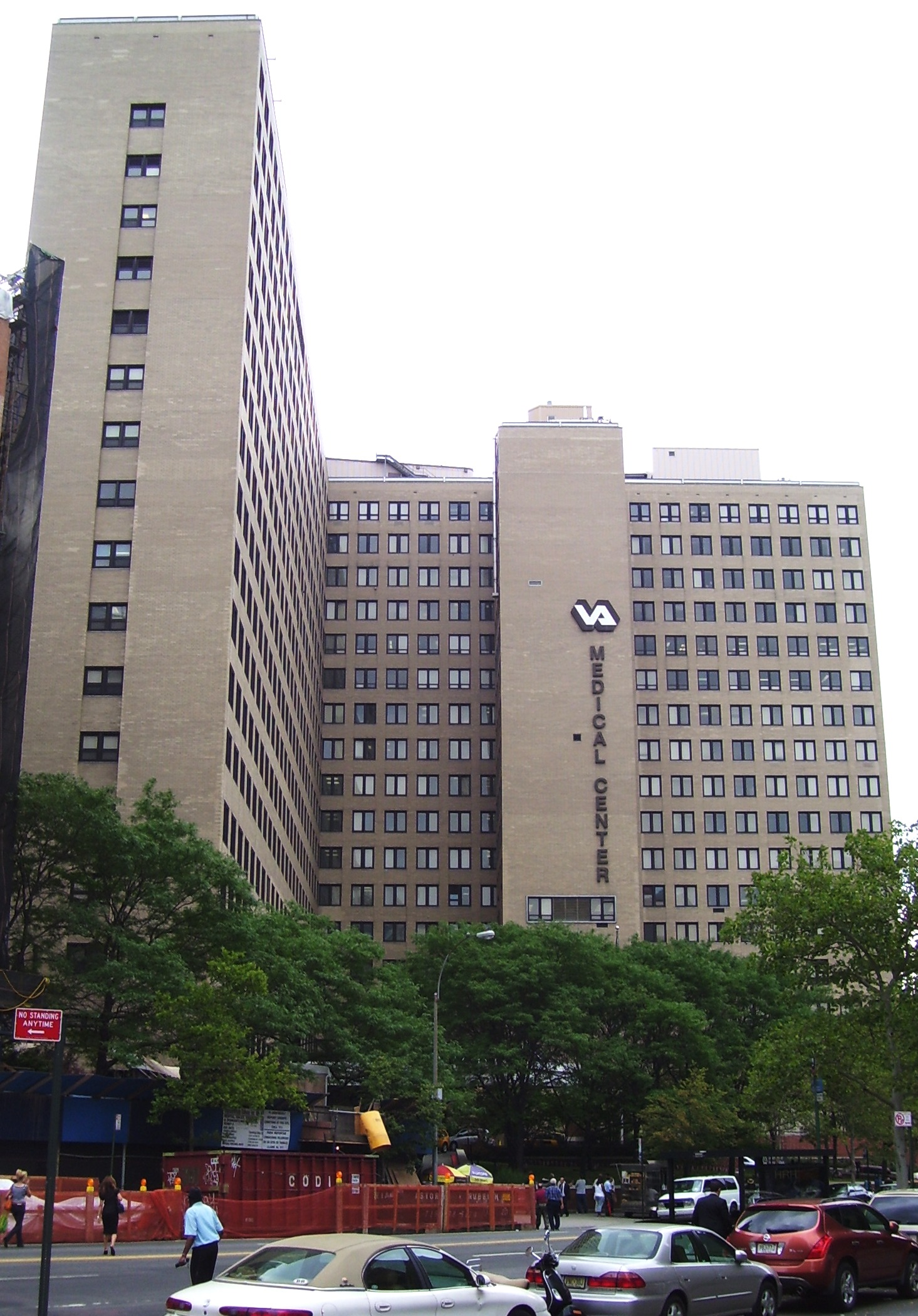 U.S. Depeartment of Veteran Affairs Medical Center on East 23rd Street in Manhattan, New York City